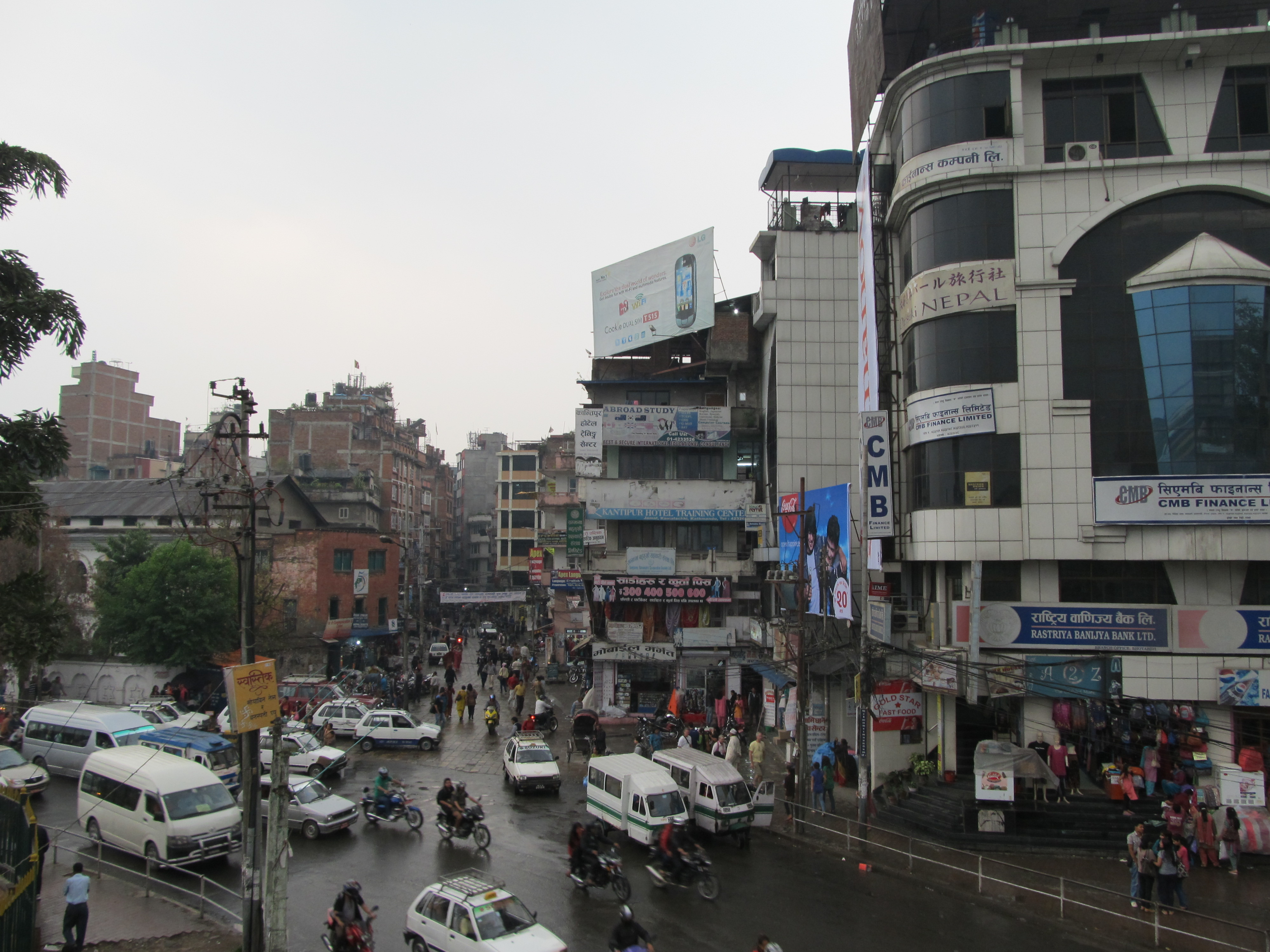 Looking into Hanuman Dhoka St from Kantipath pedestrian overpass at Rani Pokhari, Kathmandu